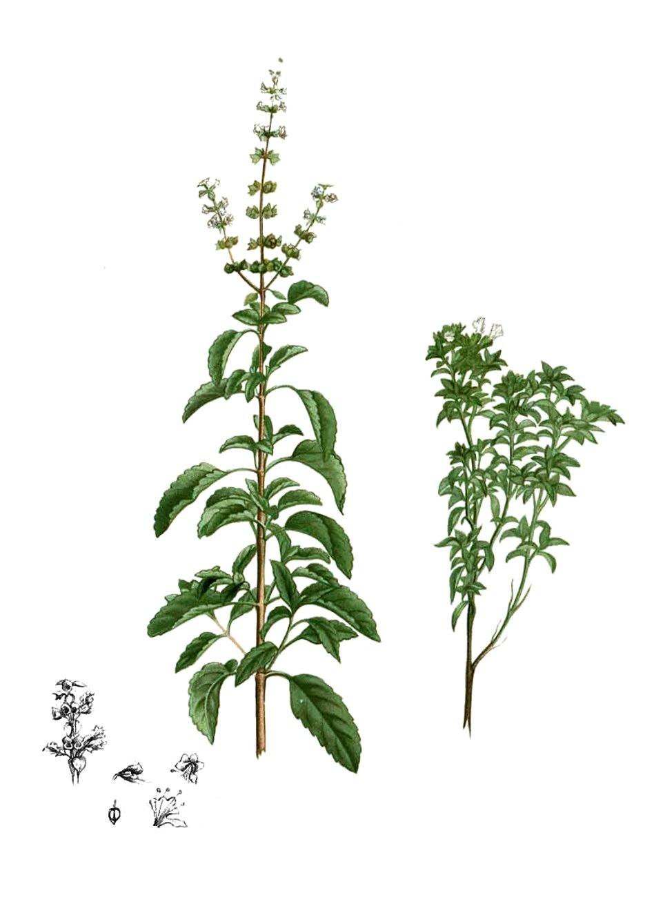 Plate from book